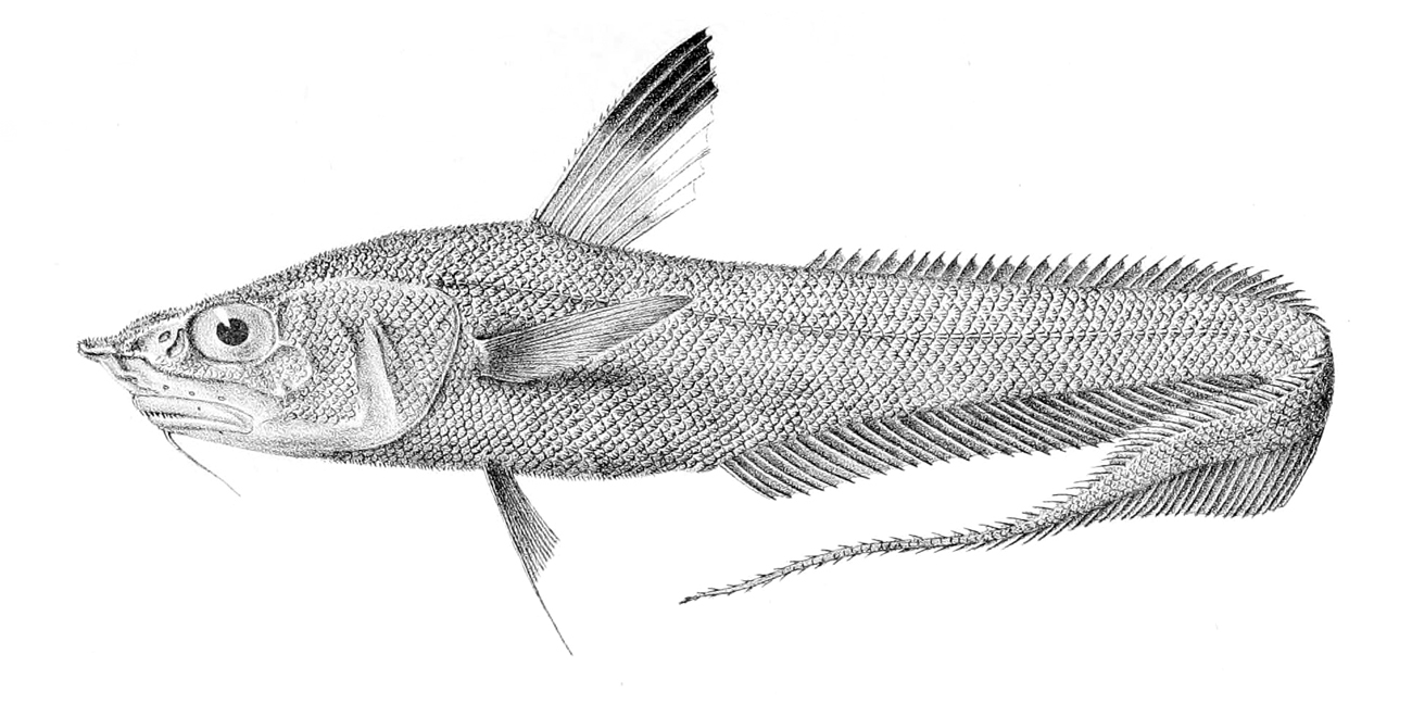 Coryphaenoides ferrieri